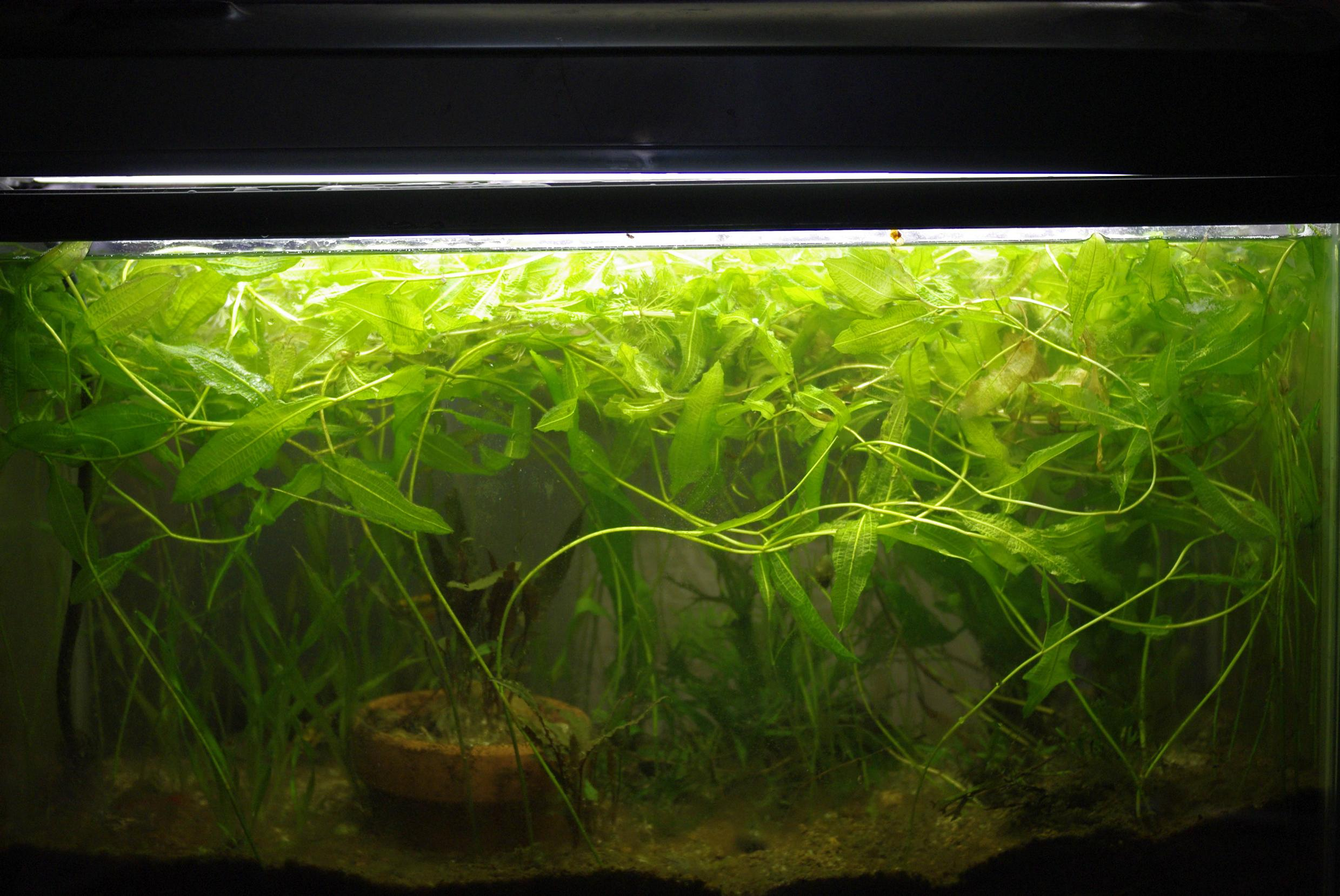 Potamogeton dentatus cultivated in aquarium tank.